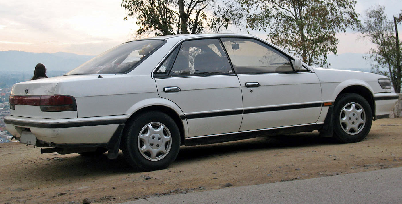 Nissan Bluebird 1.8 XE Saloon hardtop sedan, 1989. This is a JDM car which has been exported to Chile and then converted to left hand drive.